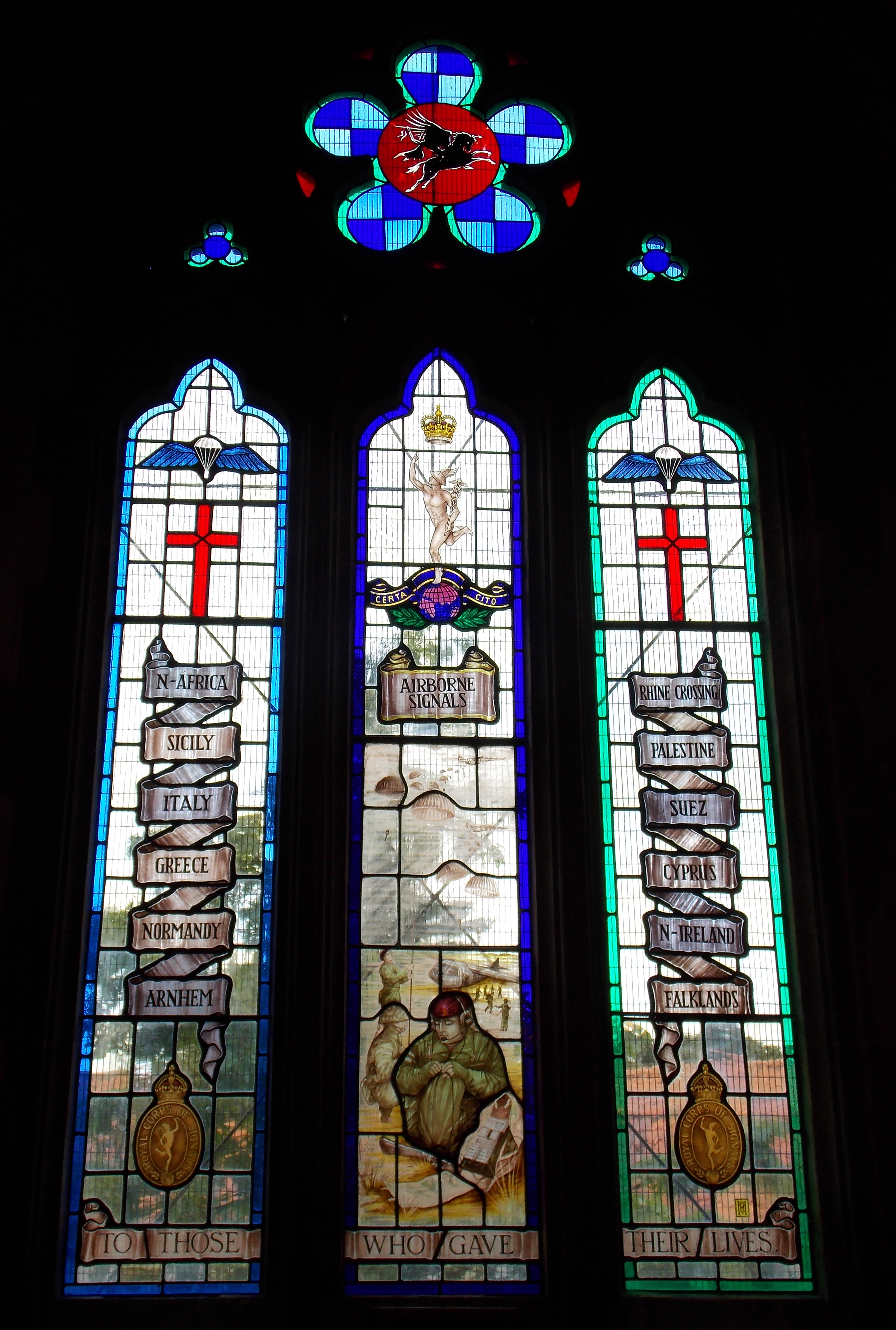 Caythorpe St Vincent - Stained window - Airborne Signals 02